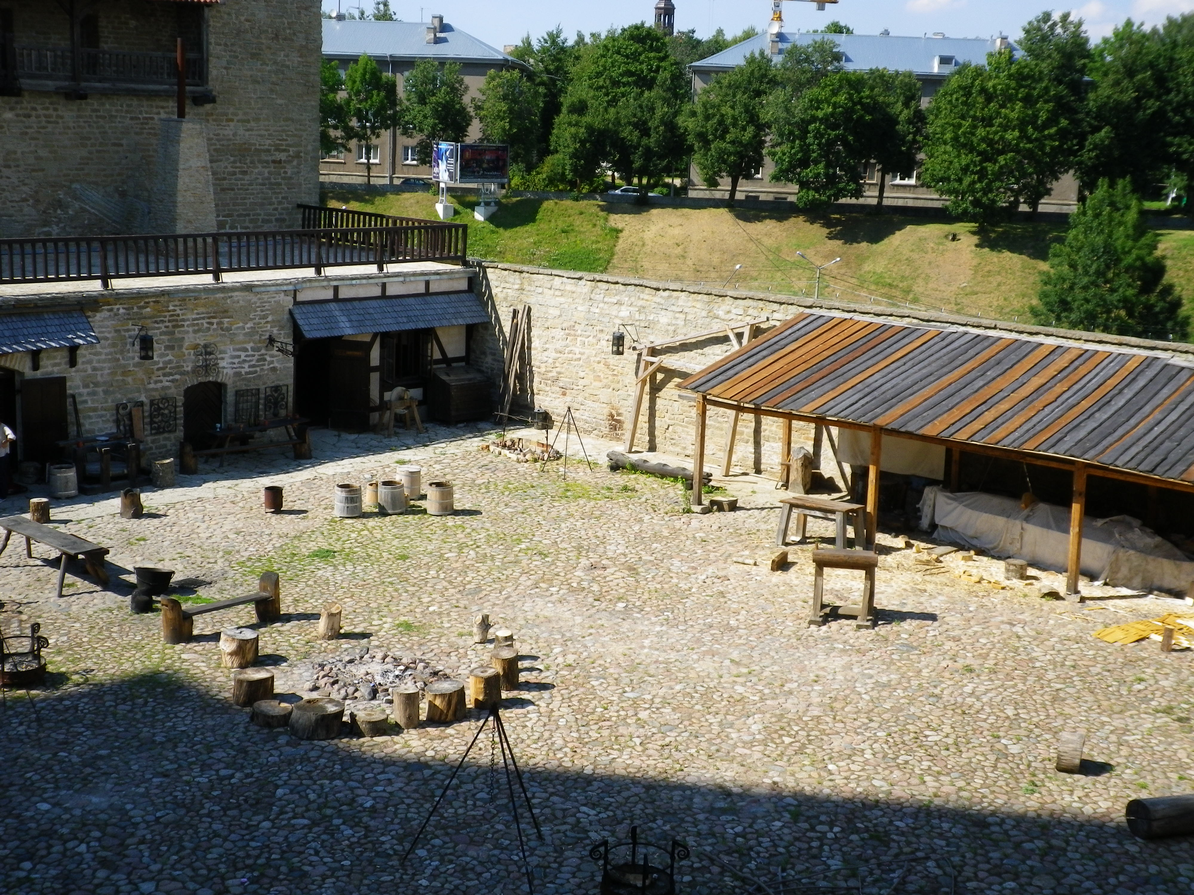 Northern yard of Narva Hermann Fortress, Estonia